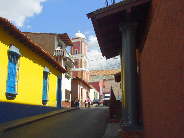 Street of Petare. Sucre Municipality, Miranda State, Venezuela.